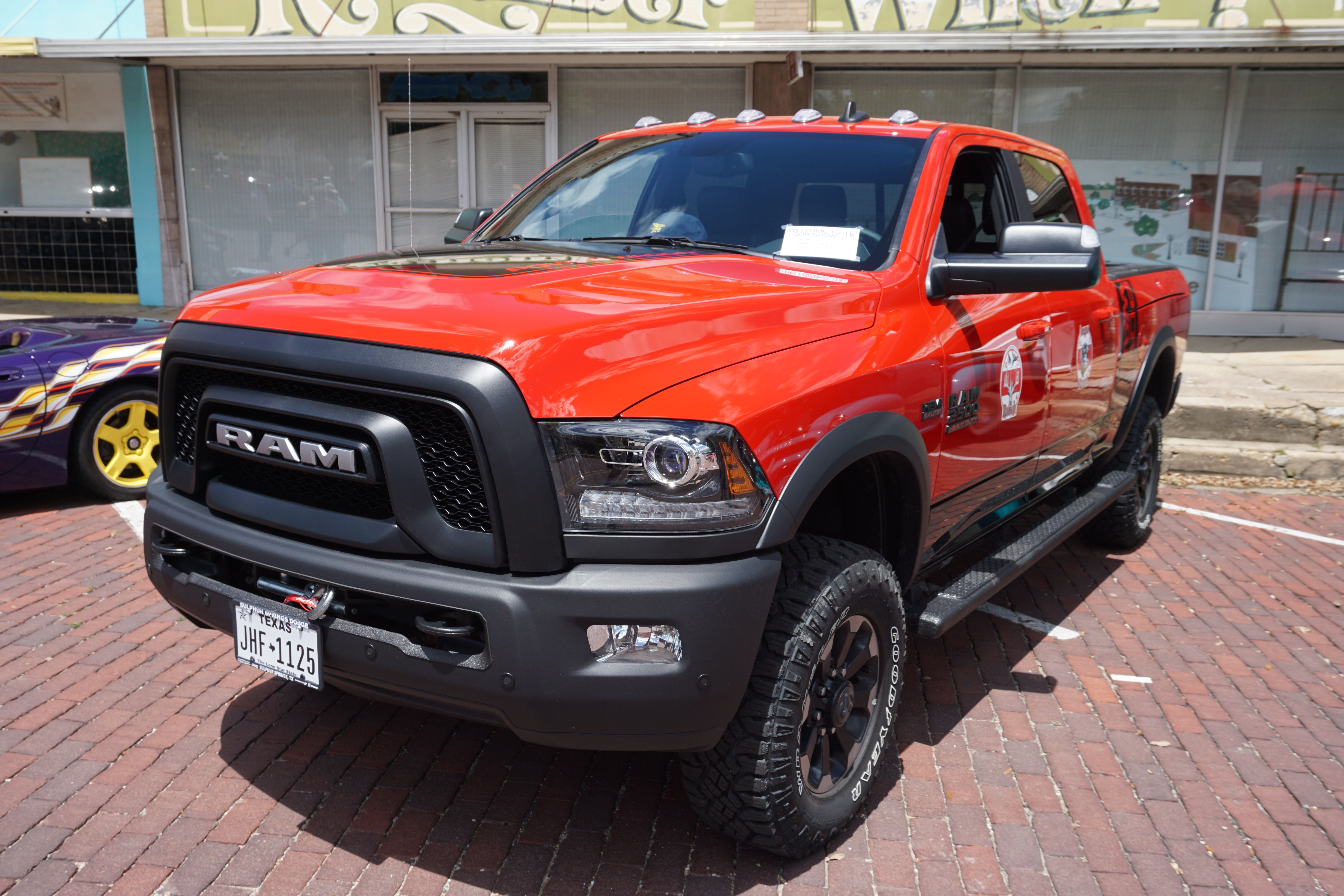 A 2014 Ram 2500 HD at the 2017 Bois d'Arc Spring Car Show in Commerce, Texas (United States).